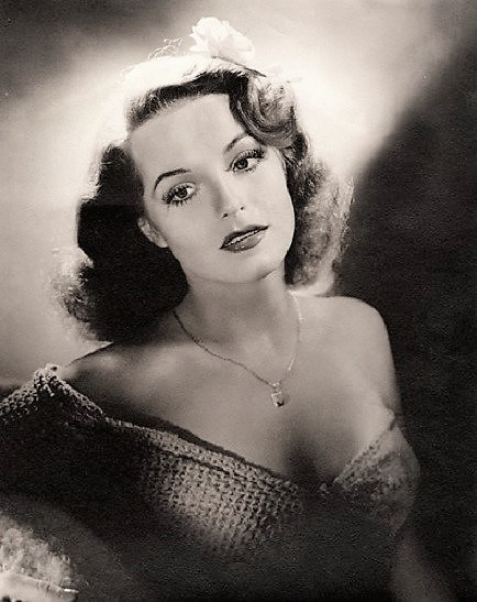 Nan Grey